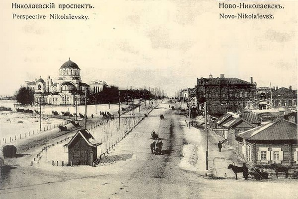 St. Alexander Nevsky Cathedral in Novonikolaevsk (now Novosibirsk), 1912